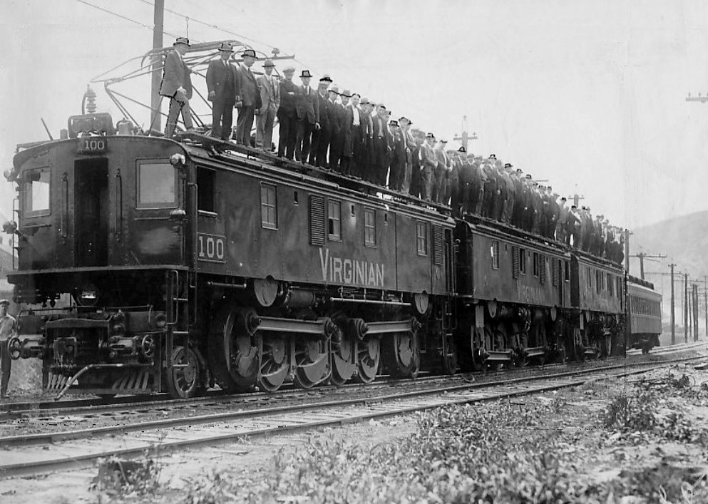 Photo of the Alco-Westinghouse EL3A electric locomotive built for the Virginian Railway in 1925. The locomotive is at the Westinghouse plant in Pittsburgh.